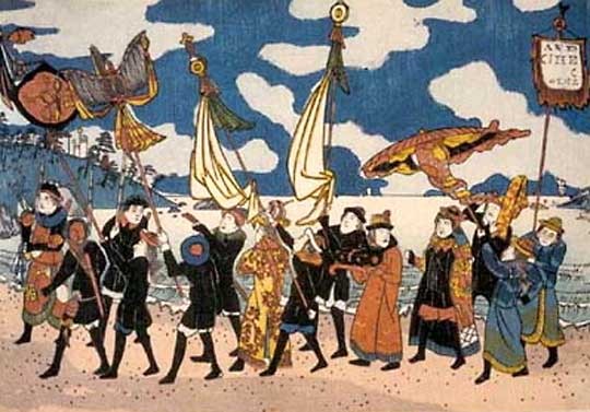 A Dutch tributary embassy to the Shogun in Edo